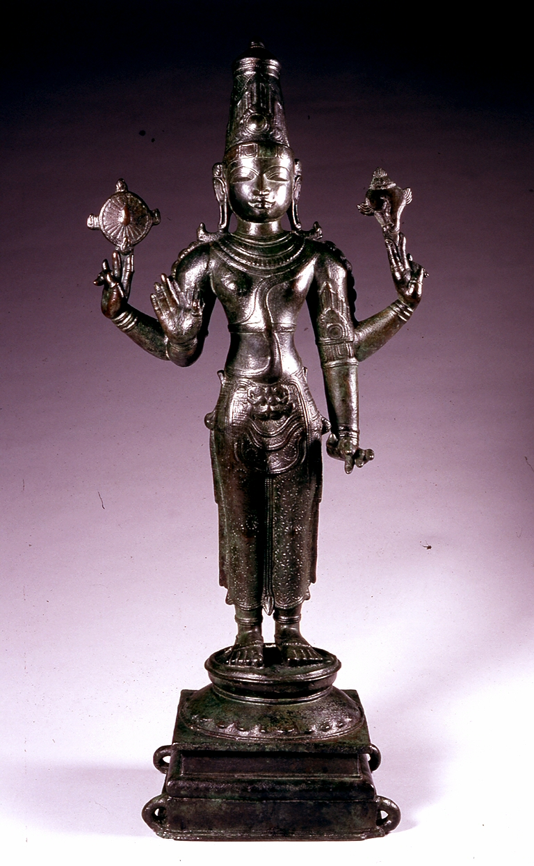 The flaming wheel is a symbol of the sun and of cosmic order. The flaming conch shell is a symbol of the ocean and of primordial sound. Originally, Vishnu's lower left hand held a club, symbolizing the knowledge that destroys time.